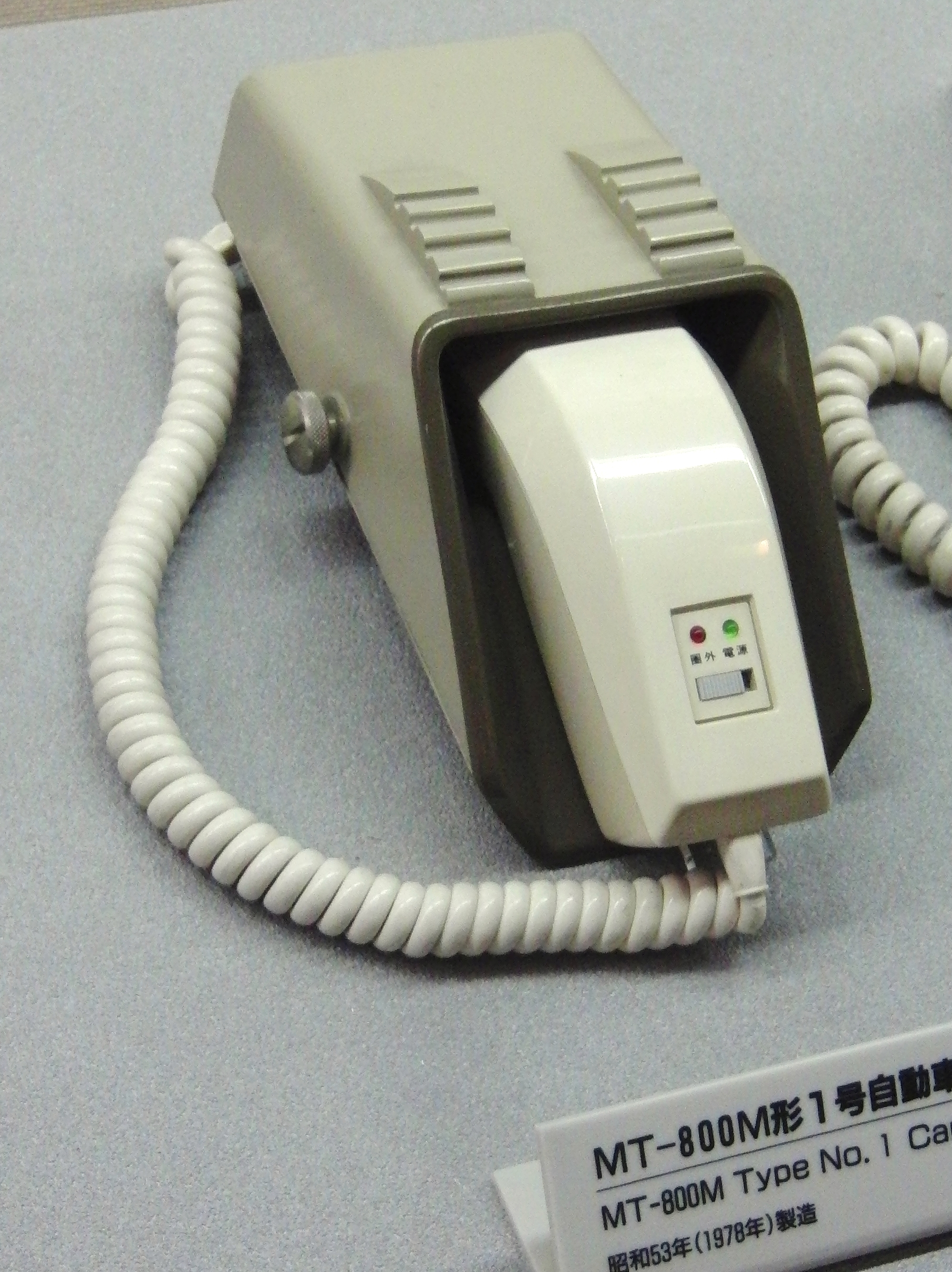 Car phone of Japan. MT-800M Type No.1 Car Telephone. Year Manufactured is 1978. Collection of Communications Museum, Tokyo.